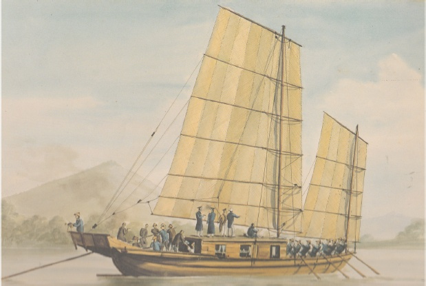 P. 51 Passage boat from Macao to Canton, length 50 to 65 feet; width 10 to 12 feet, a drawing by François-Edmond Pâris, in 1832. Pâris may be the figure sitting on the deck with a board on his knees drawing. The other characters are his companions three fellow naval officers and a civilian, Cyrille Pierre Théodore Laplace, the head of the expedition. They are on a journey from the Macao on the peninsula to Canton. Series: Traditional Boats of Macao (1832).